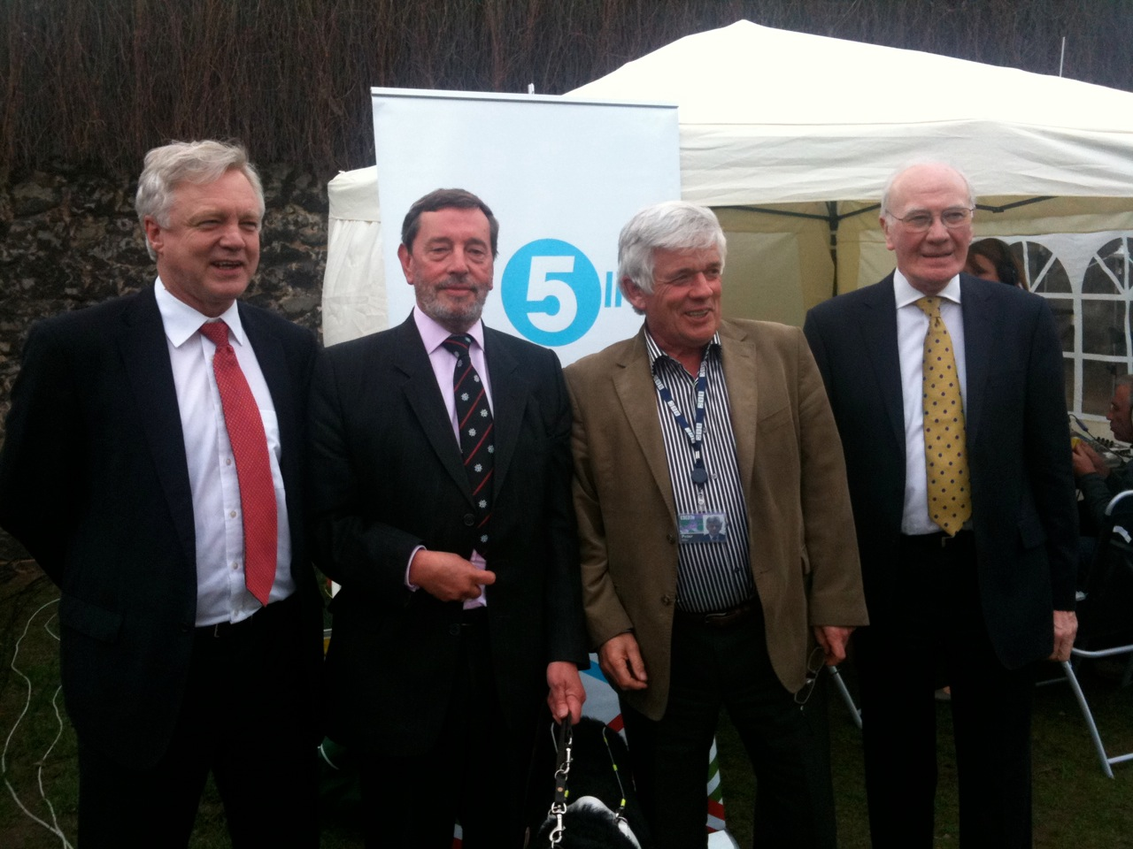 From left to right: David Davies, David Blunket, ?, Menzies Campbell.